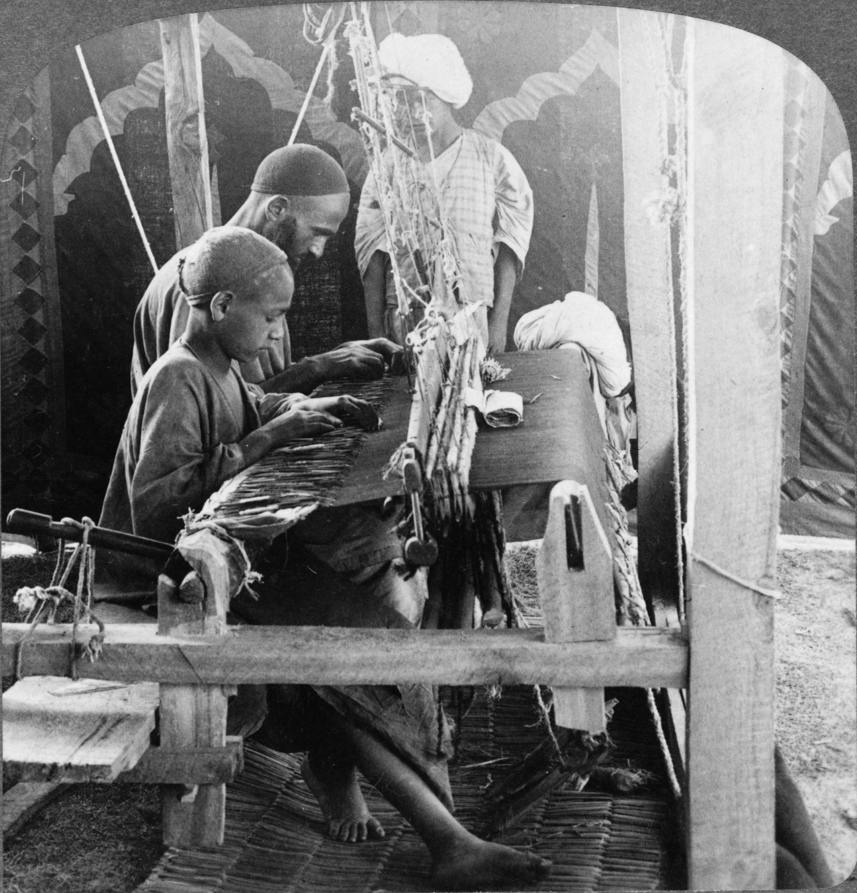 Humble shawl-weavers in Kashmir patiently creating wonderful harmonies of line and color, India.